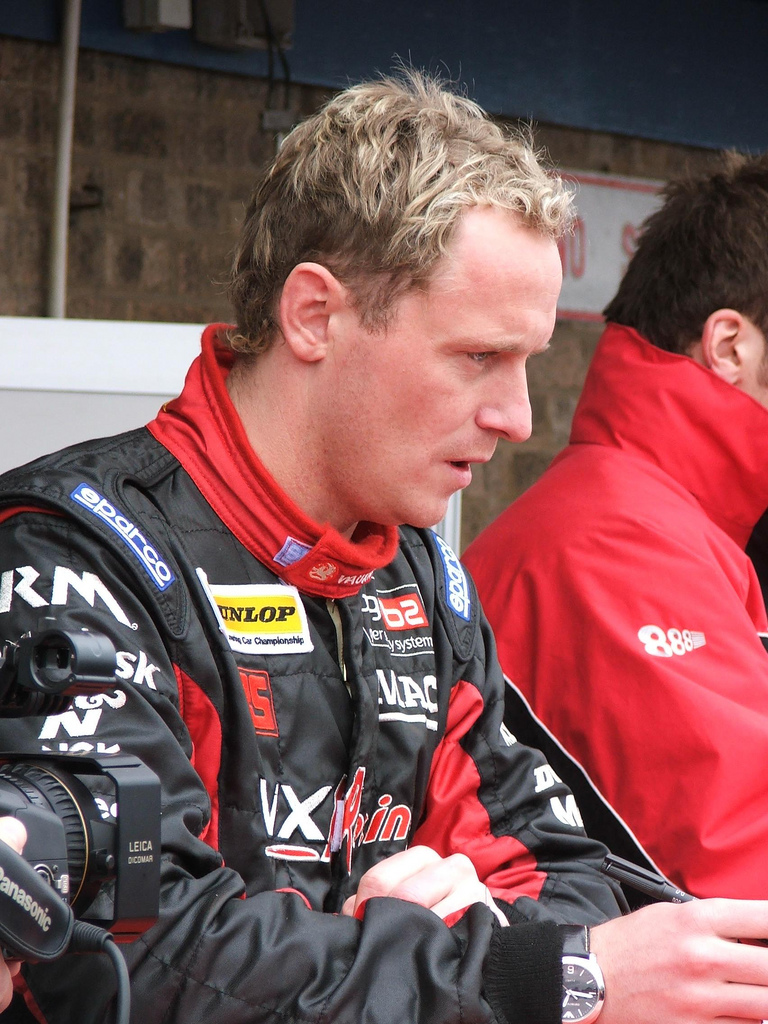 Gavin Smith (Racing Driver), Donnington Park 2005, British Touring Car Championship